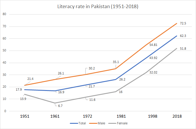 Literacy rate in Pakistan 1951-2018